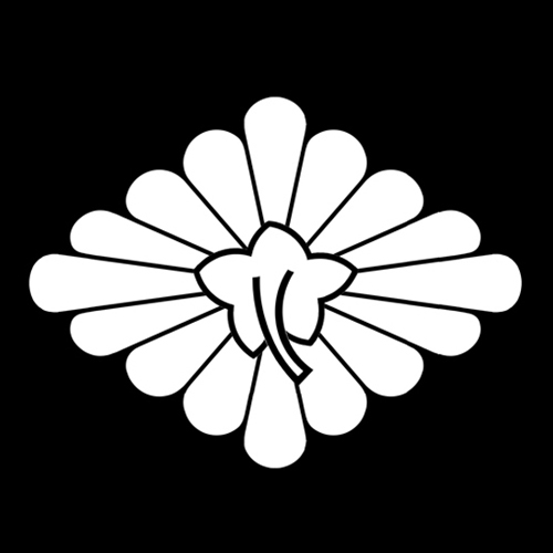 Japanese family crest "Ura-Giku (kiku)-Bishi (hishi)", a crysanthemum flower (kiku) fit into a diamond shape (hishi), seen from back (ura)